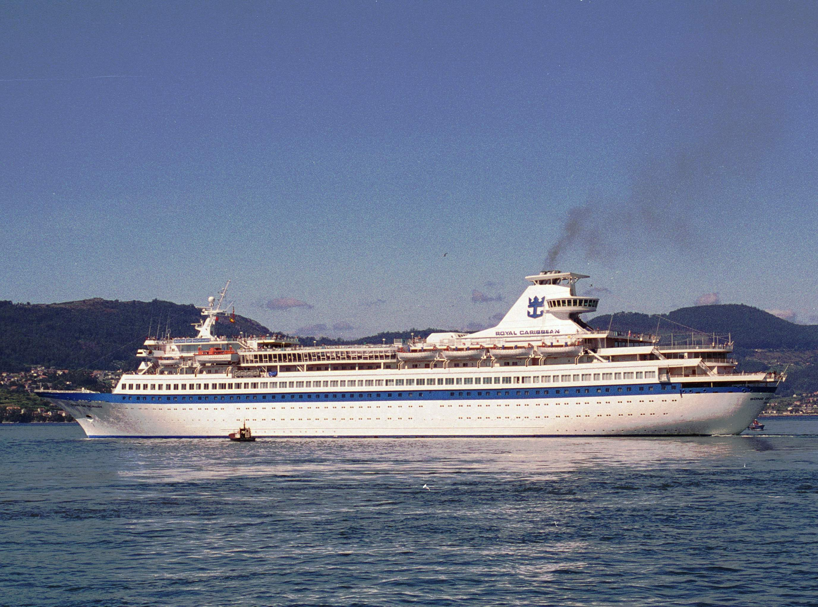 MS Song of Norway leaving Vigo, Spain on 19 September 1994.